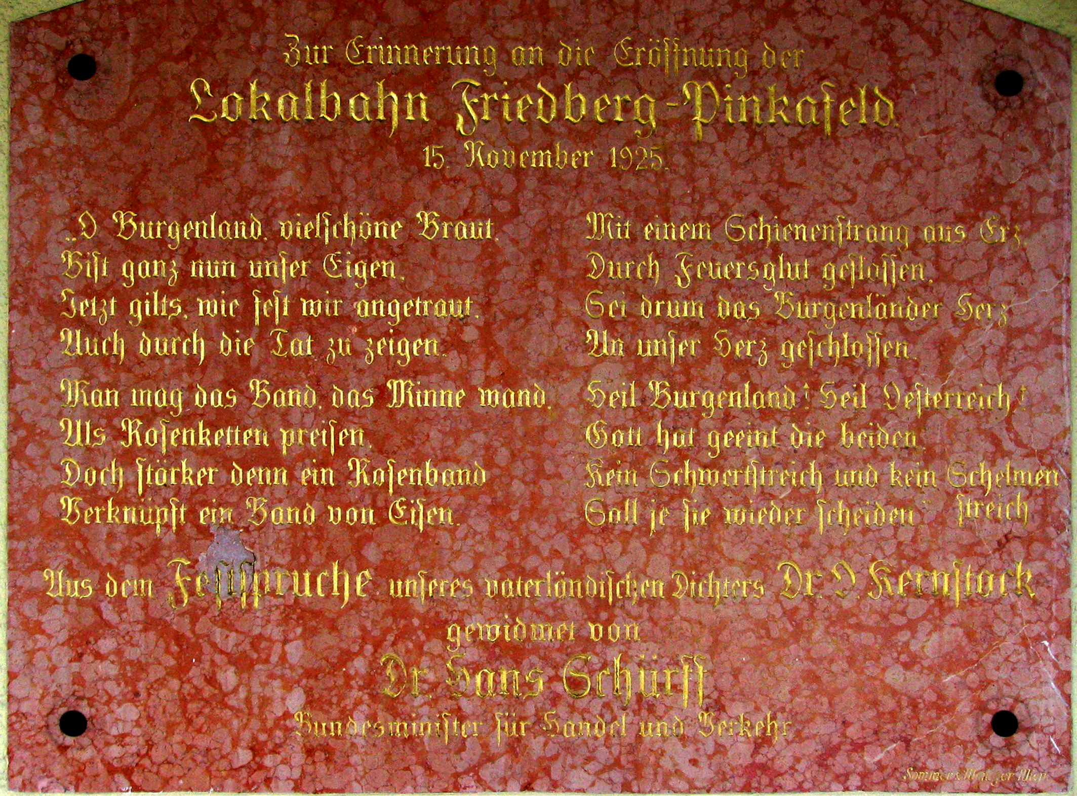 Pinkatalbahn